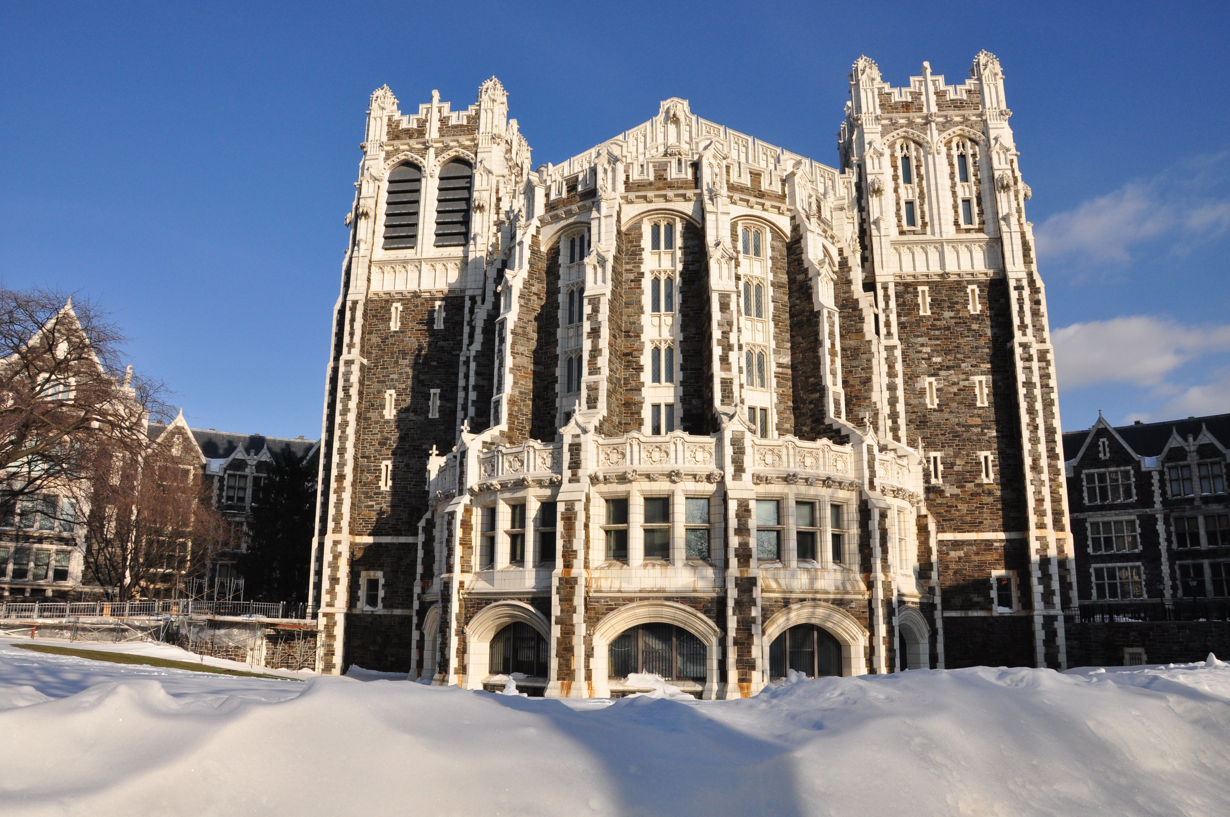 Shepard Hall, one of the main buildings of the City College of New York, is the centerpiece of the campus. It was modeled after a Gothic cathedral plan with its main entrance on St. Nicholas Terrace. It was named after Edward Morse Shepard (Class of 1869). He was instrumental in obtaining the St. Nicholas Heights site for the College. He also conceived the idea of the Great Hall, the building’s outstanding feature.